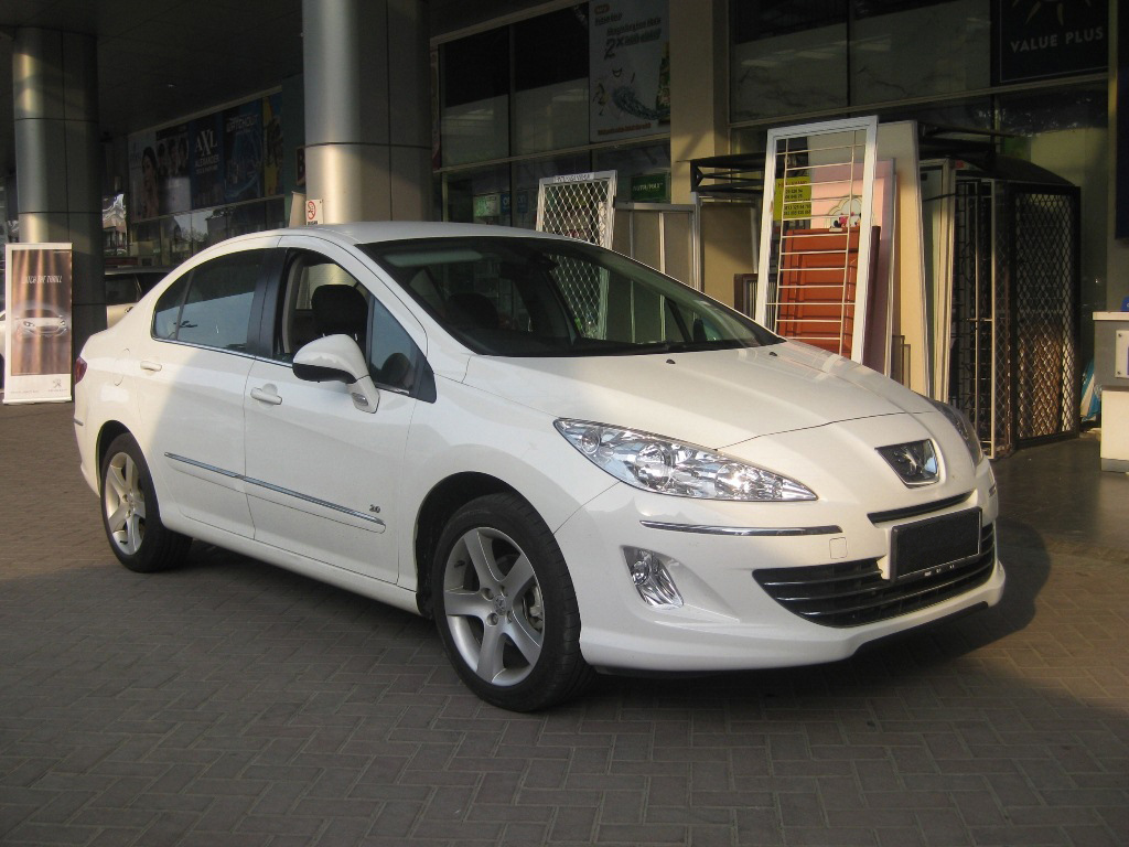 Peugeot 408 Sedan 2.0.